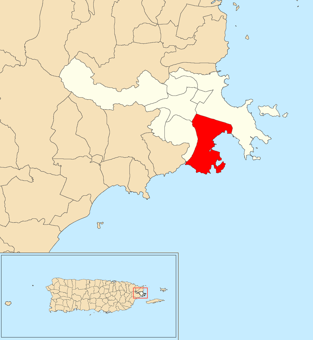 Guayacán, Ceiba, Puerto Rico locator map